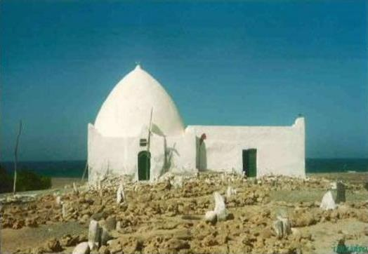 Tomb of Sheikh Isaaq in Maydh, Sanaag, Somalia.